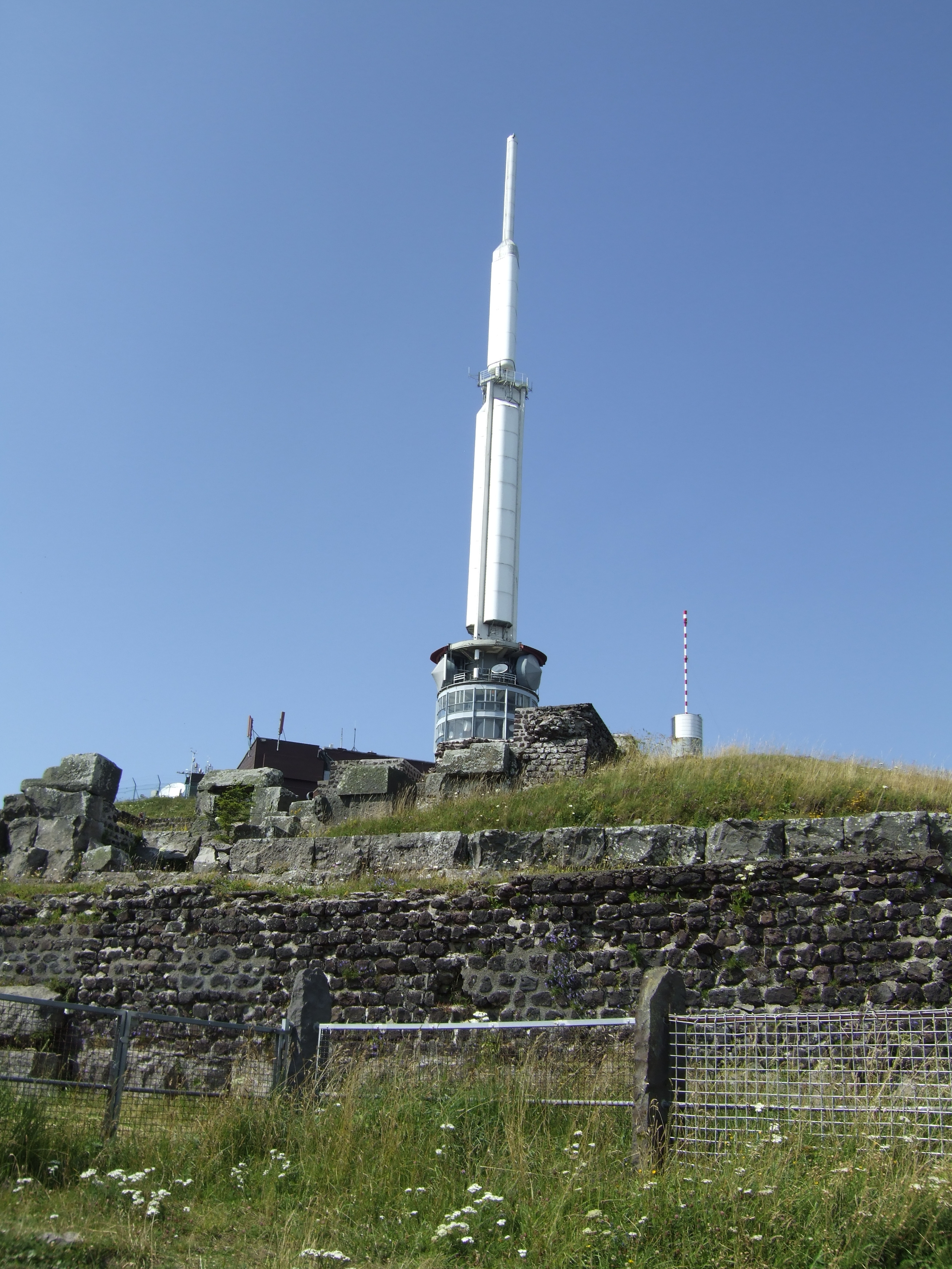 Ancient temple of Mercury and transmission tower on the Puy de Dôme (France)